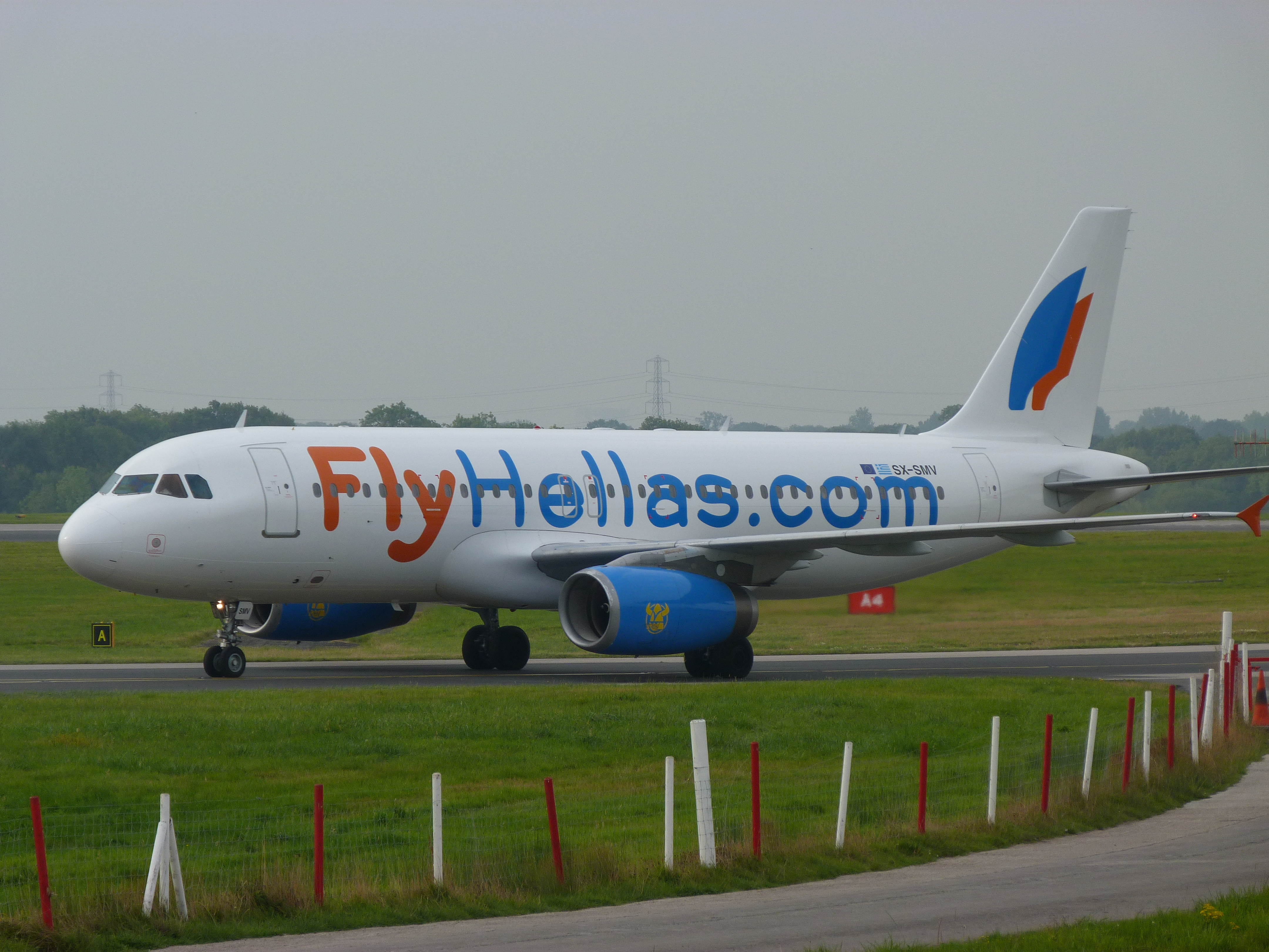 SX-SMV Airbus A320-231 Fly Hellas